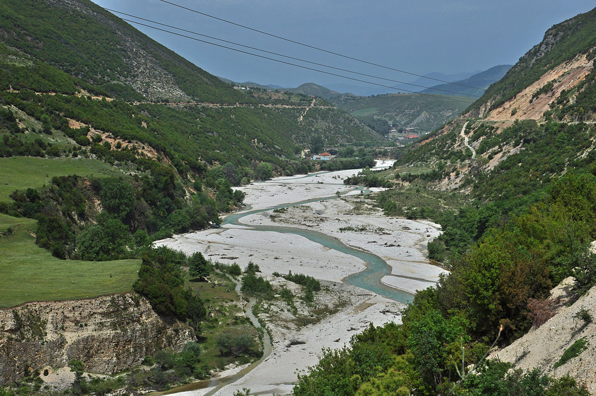 Benca river flowing towards Tepelena. On the left bank of the river Tepelena prison is visible.